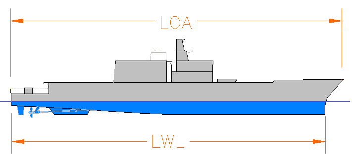 2D image of a hull showing the terms LOA and LWL for hull